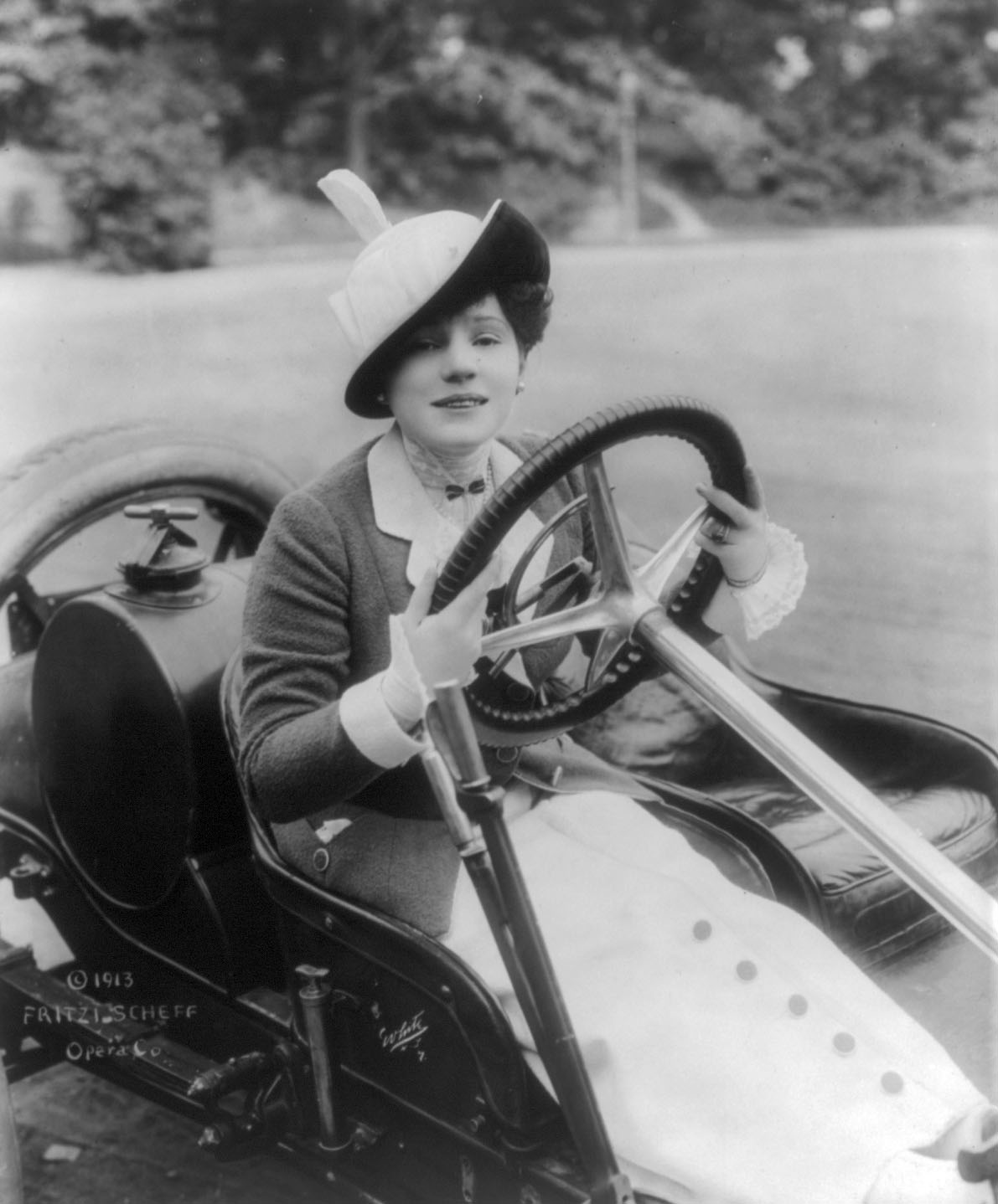 Singer and actress Fritzi Scheff at the wheel of a car in 1913